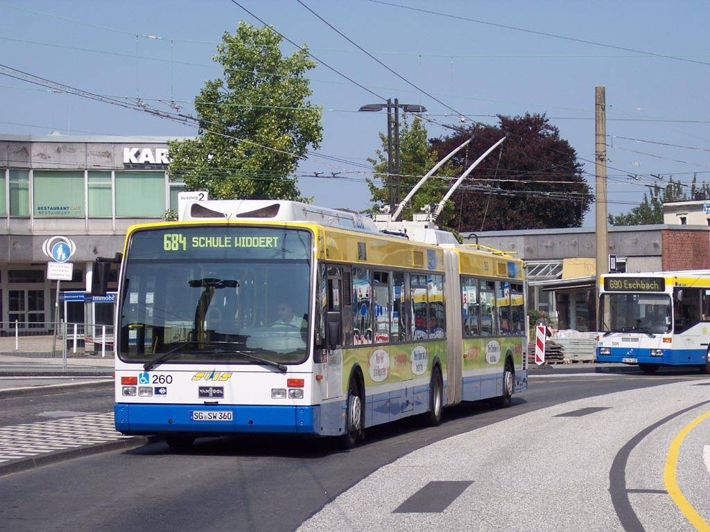 As part of the fleet replacement programme, Solingen's transport system took delivery of a batch of Van Hool AG300T articulated trolleybuses in 2002. This is number 260 at Graf-Wilhelm-Platz.